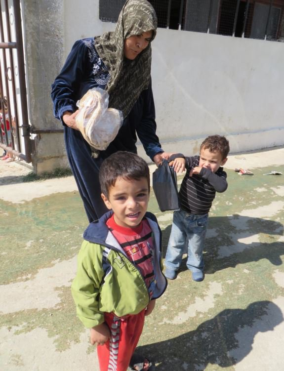 Syrian families come to centers like this one to get basic needs, like bread from aid workers who say they are in desperate need of donations, Bekaa Valley, Lebanon, Sept. 4, 2013.